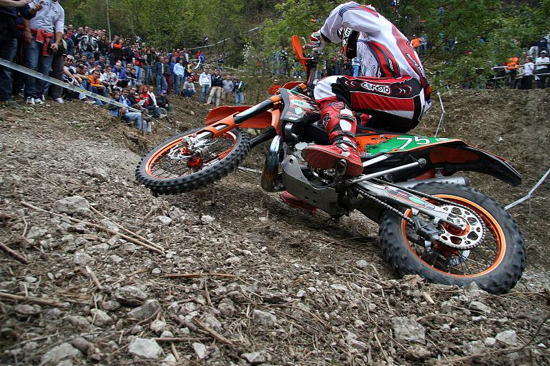 Junior class contestant Michael Pogna riding his KTM at the 2008 World Enduro Championship Grand Prix of Italy in Piediluco.